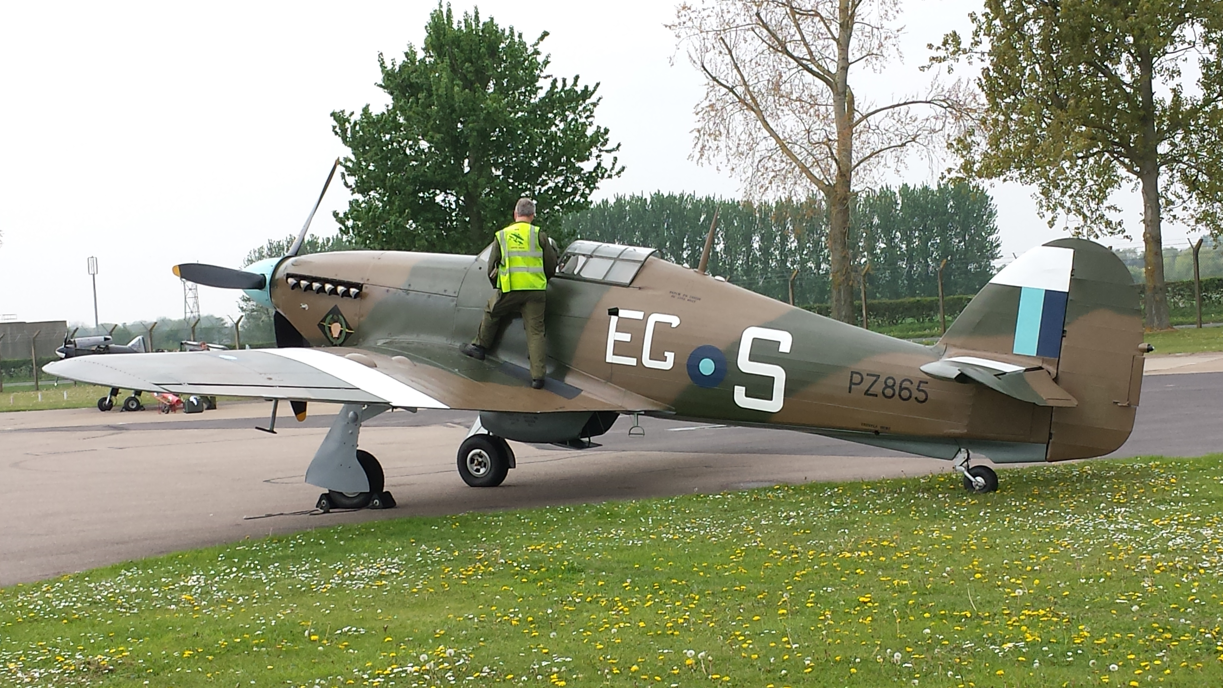 Hawker Hurricane PZ865 at RAF Coningsby April 30 2014